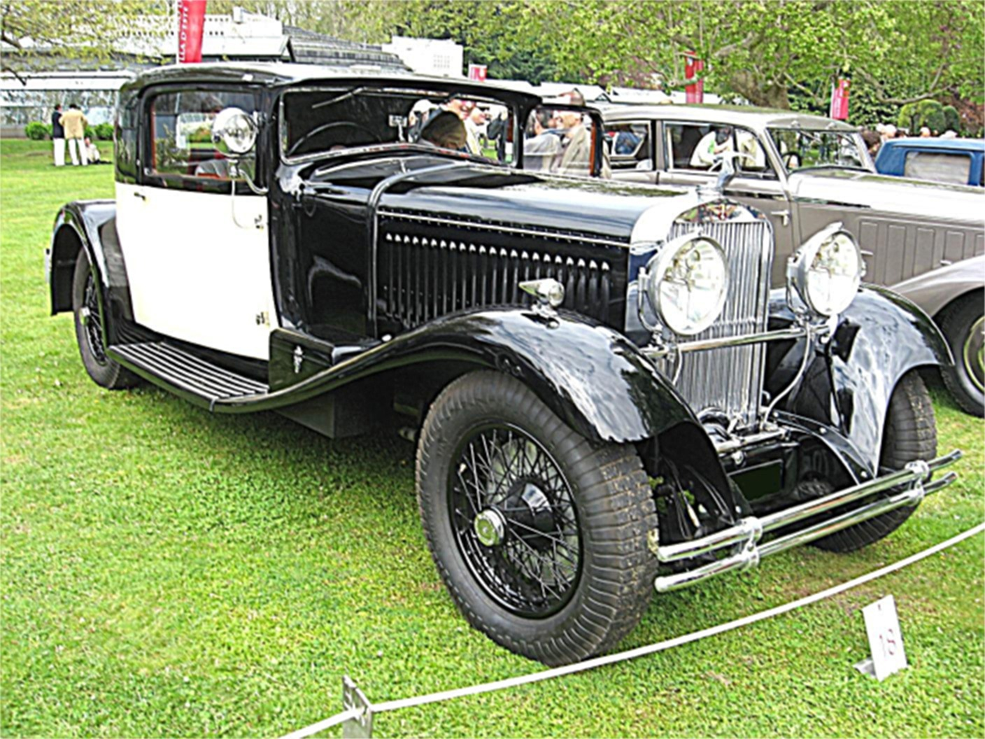 Subject:Hispano-Suiza H6C (1927), coachbulding by Van Vooren Author:Luc106 Date:April 27th, 2008 Event:Concorso d’Eleganza”Villa d’Este” 2008 Place/Country: Cernobbio (CO), Italy I release all rights in the public domain.